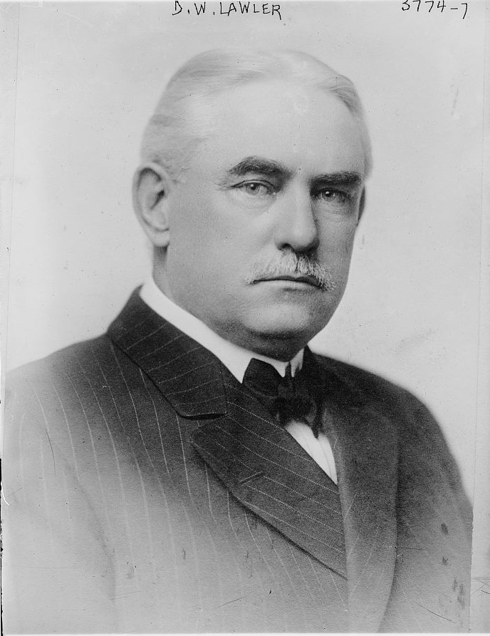 Daniel William Lawler (March 28, 1859 - September 15, 1926) in 1915